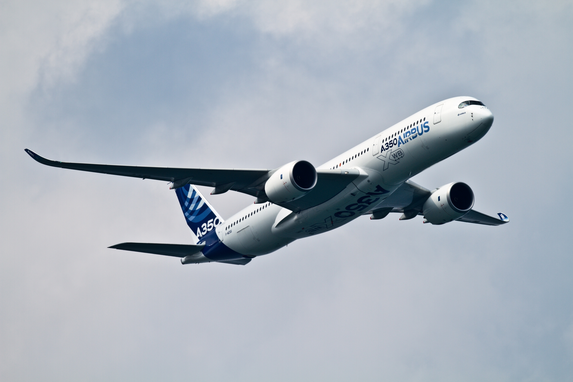 Airbus A350 flypast at Singapore Airshow 2015